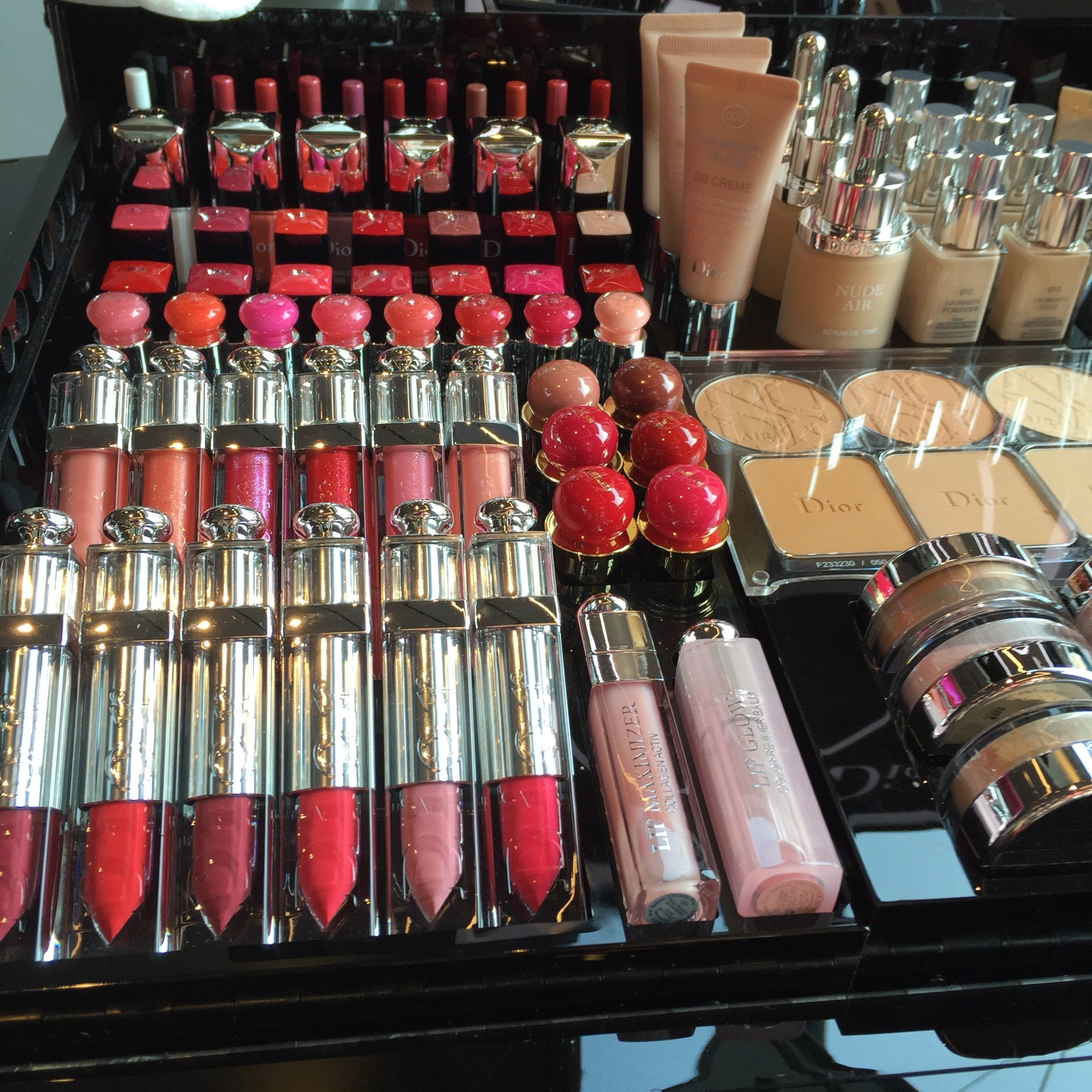 Set of Dior cosmetics (lipsticks)